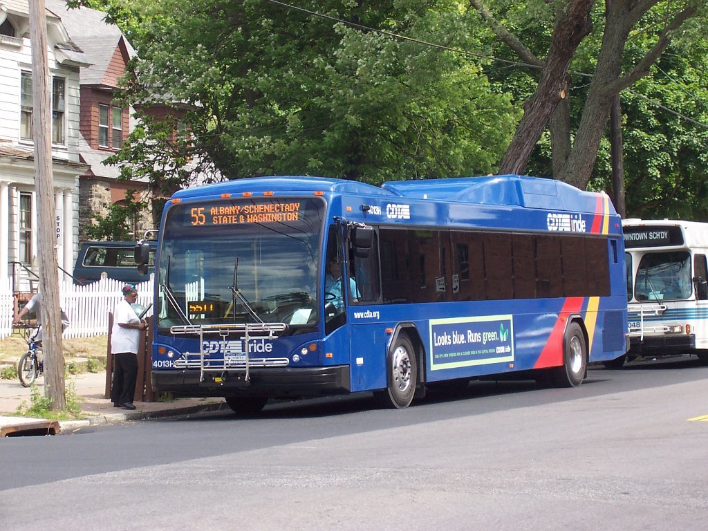 CDTA Gillig Low Floor Hybrid BRT bus 4013 in Schenectady, New York.